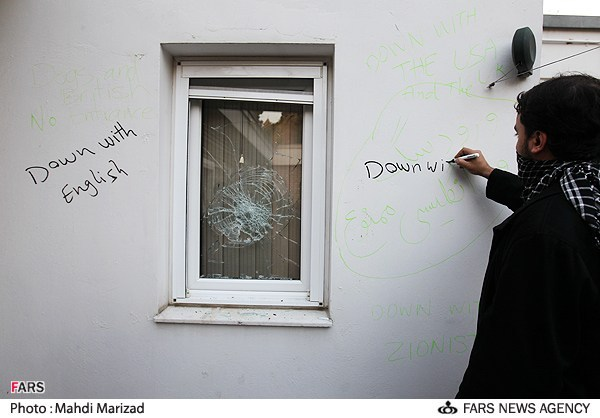 ورود دانشجویان معترض به سفارت انگلیس در تهران